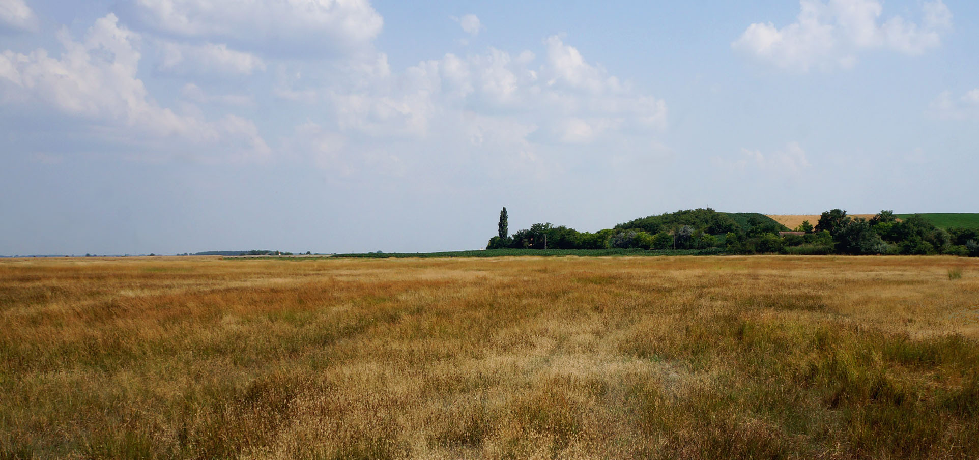 Saline grassland on the Tisza plain, in Serbian Bácska